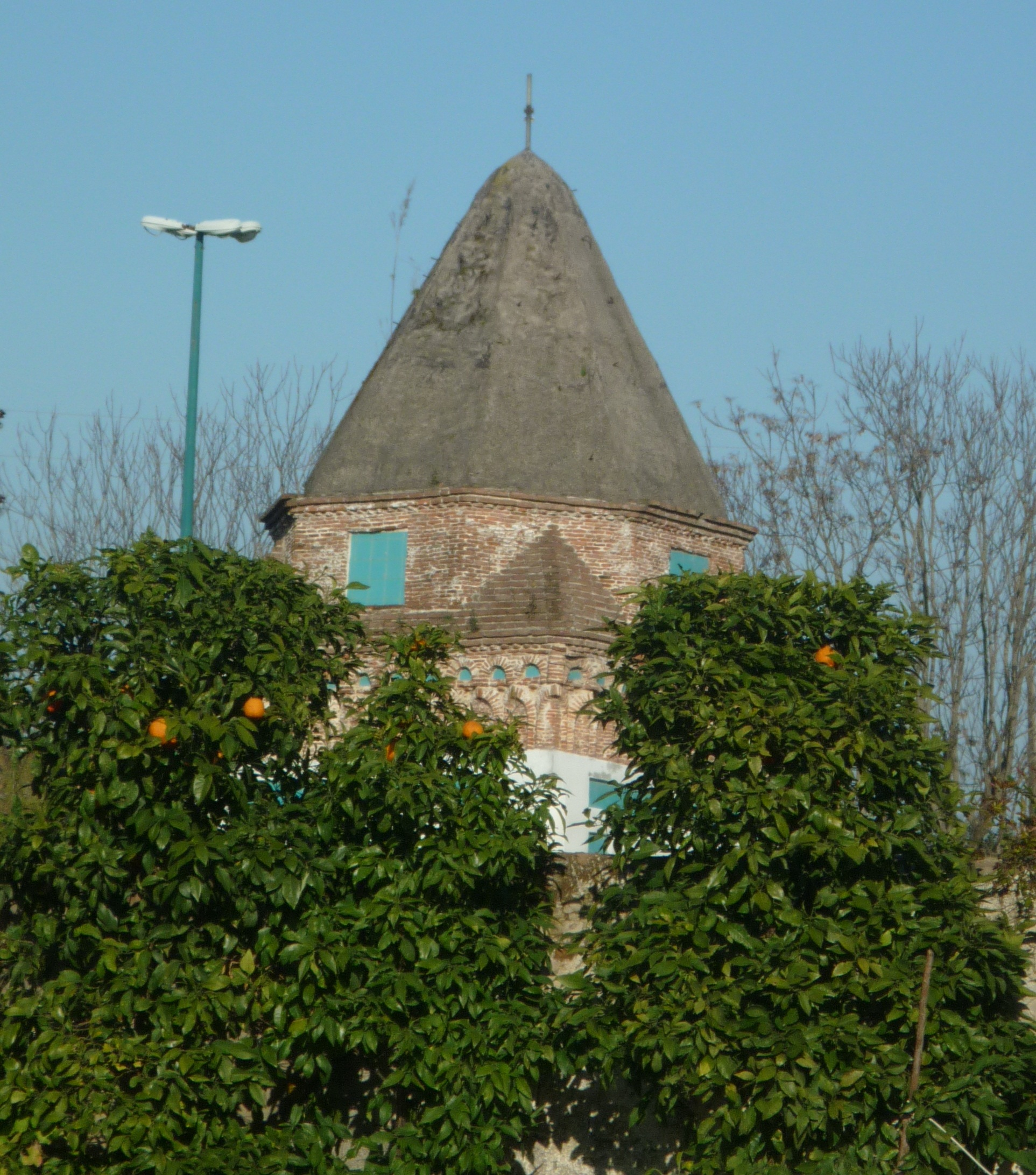 Tomb Tower Hassen ibn Ali Nasser ul Haq Kabir